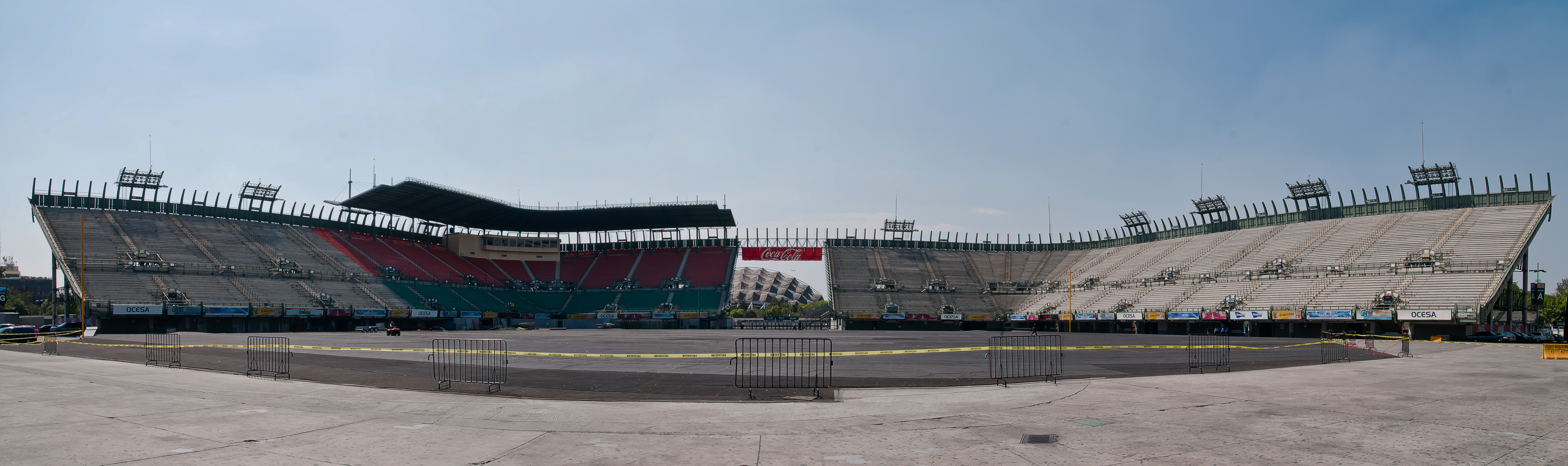 Foro Sol Construido y operado por OCESA desde 1997. Inaugurado por Madonna en 1993. Casa del equipo de baseball Diablos Rojos. Vacío.